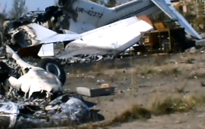 Ruins of Donetsk Sergey Prokofiev International Airport. The remains of the «DonbassAero» airline Yakovlev Yak-42D UR-42372 C/N 4520423914266 aircraft.